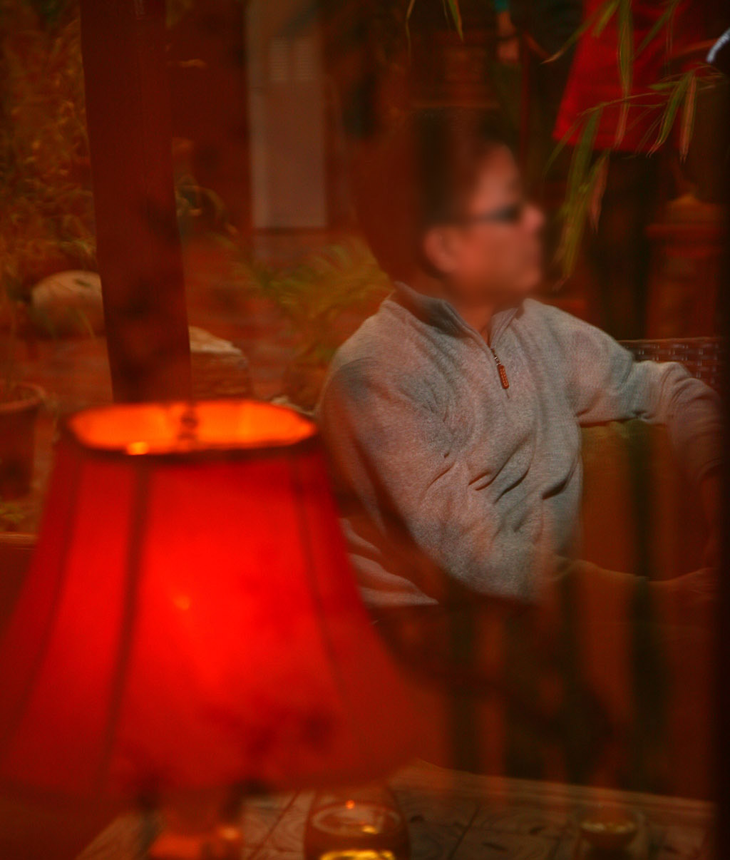 menglin's photo